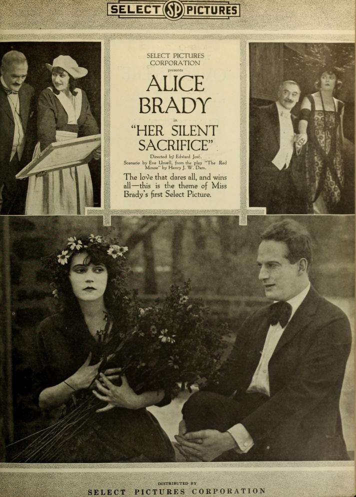 Advertisement in The Moving Picture World for the American drama film Her Silent Sacrifice (1917).